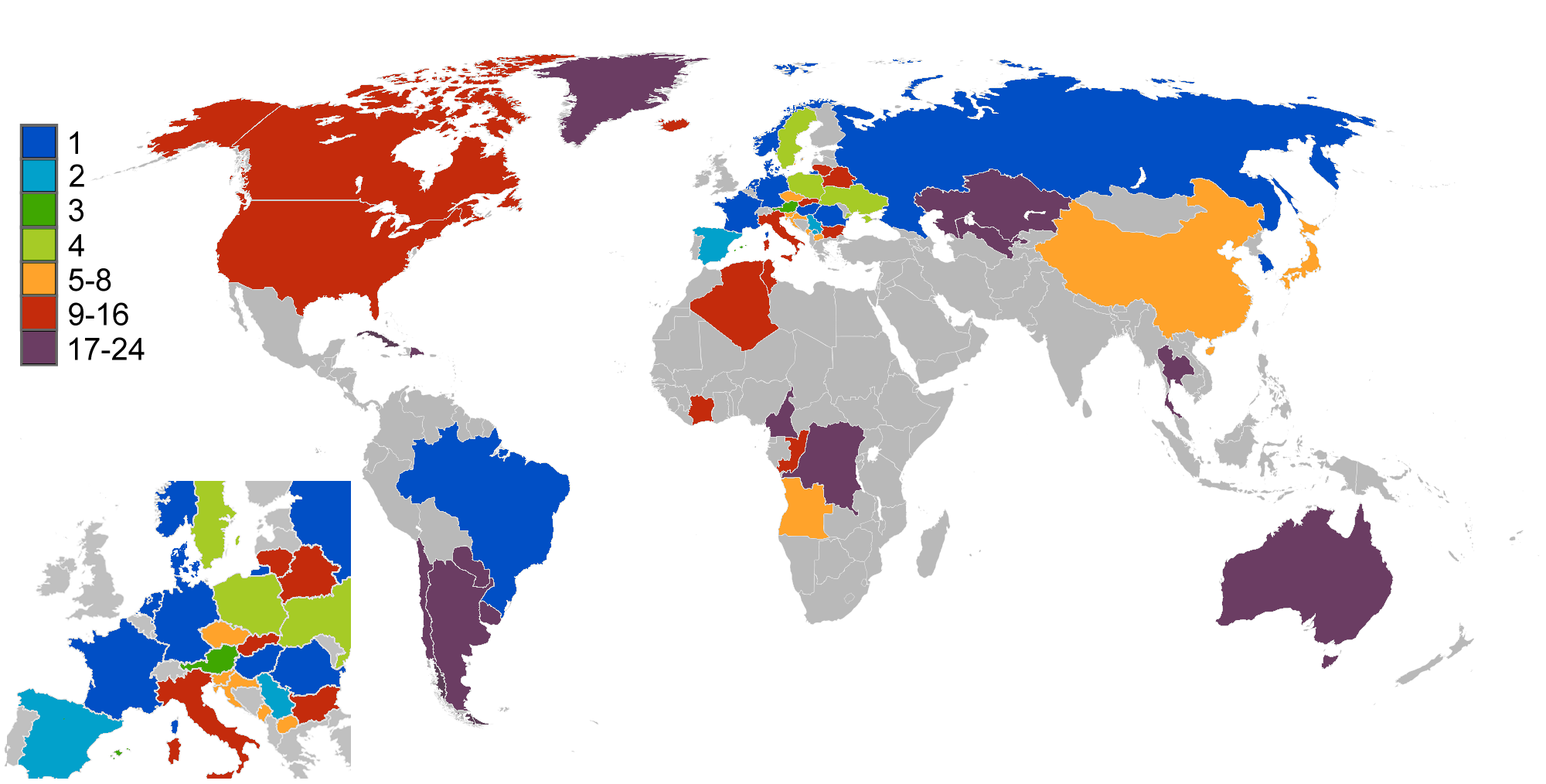 Map showing best result for participants in the Women Handball World Championship